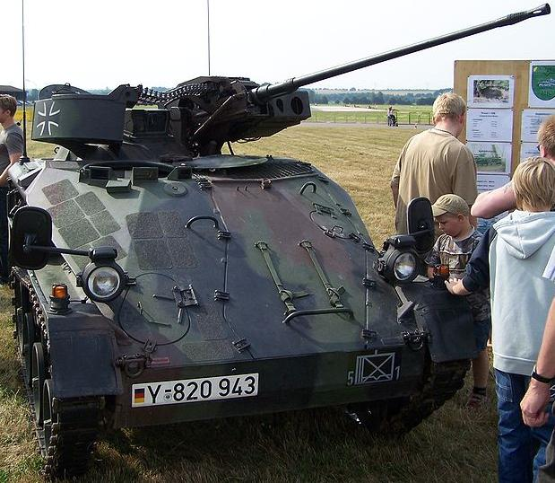 improved from image:Wiesel120mm.jpg